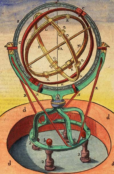 Tycho Brahe described the construction and use of his zodiacal armillary instrument (ARMILLÆ ZODIACALES) for measuring altitudes and azimuths of celestial objects.